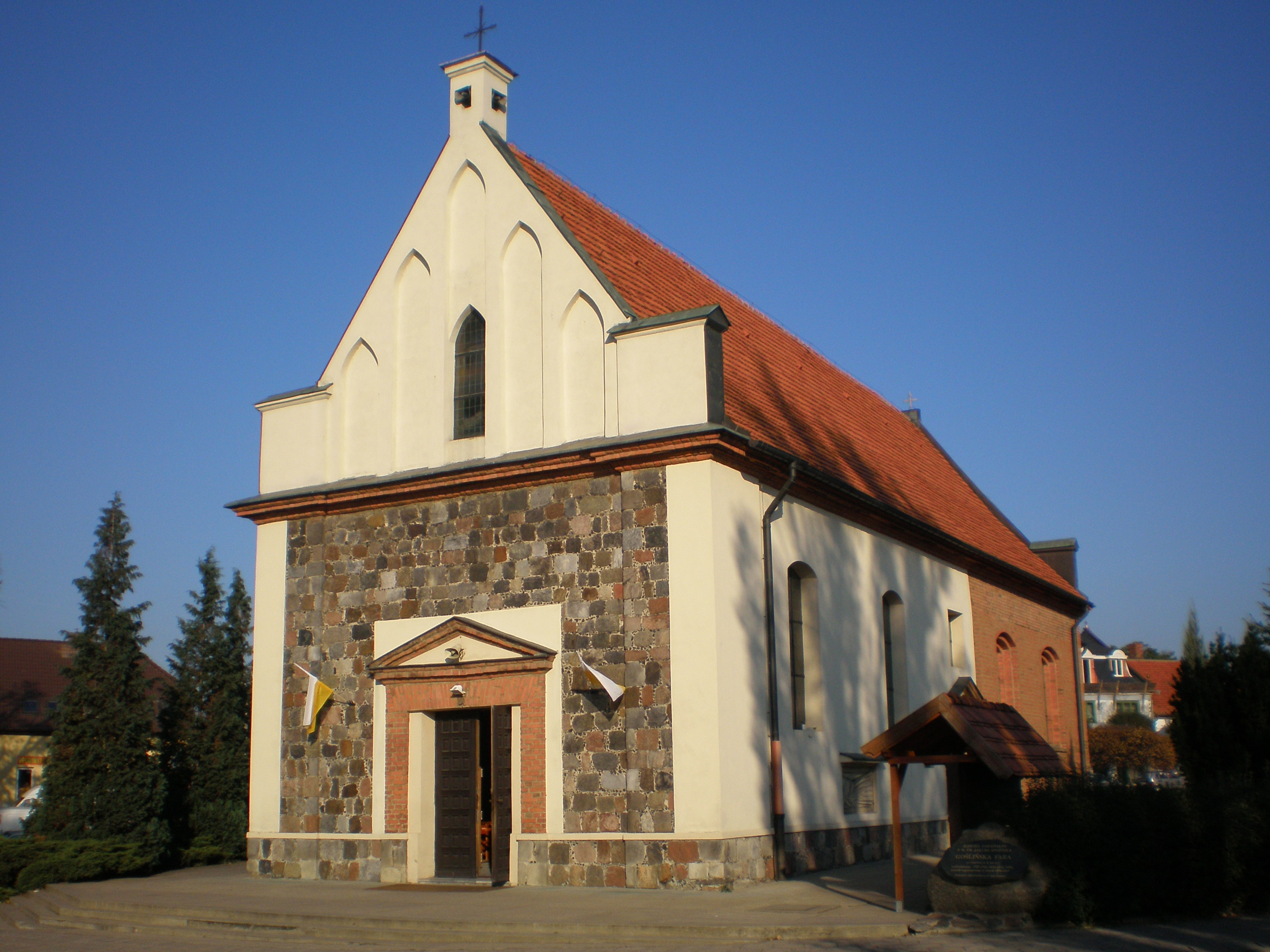 Murowana Goślina town.